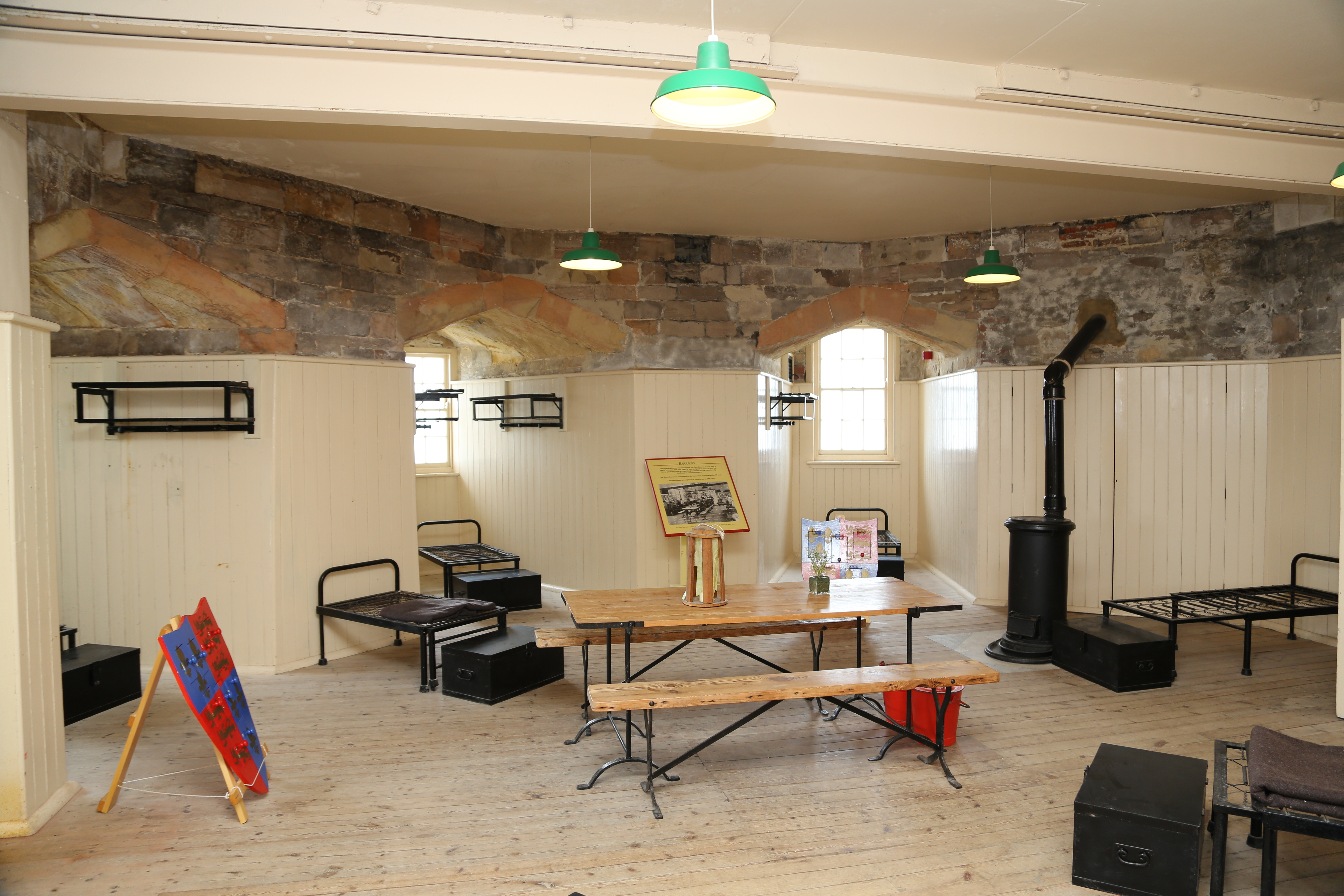 Photo of the first floor barracks in Calshot castle. It was designed to hold 11 people.